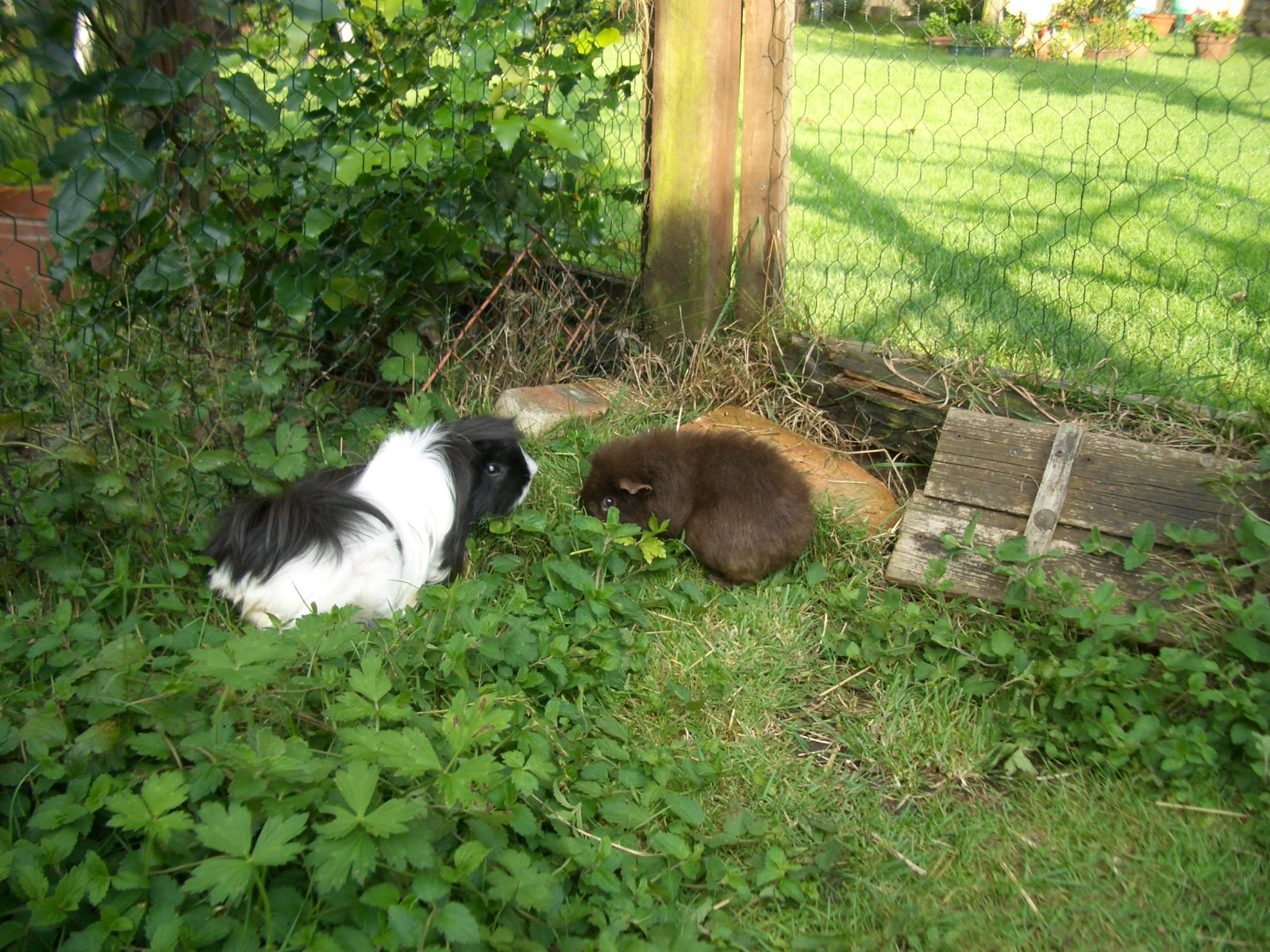 Two Guinea Pigs (Cavia porcellus) in the garden.